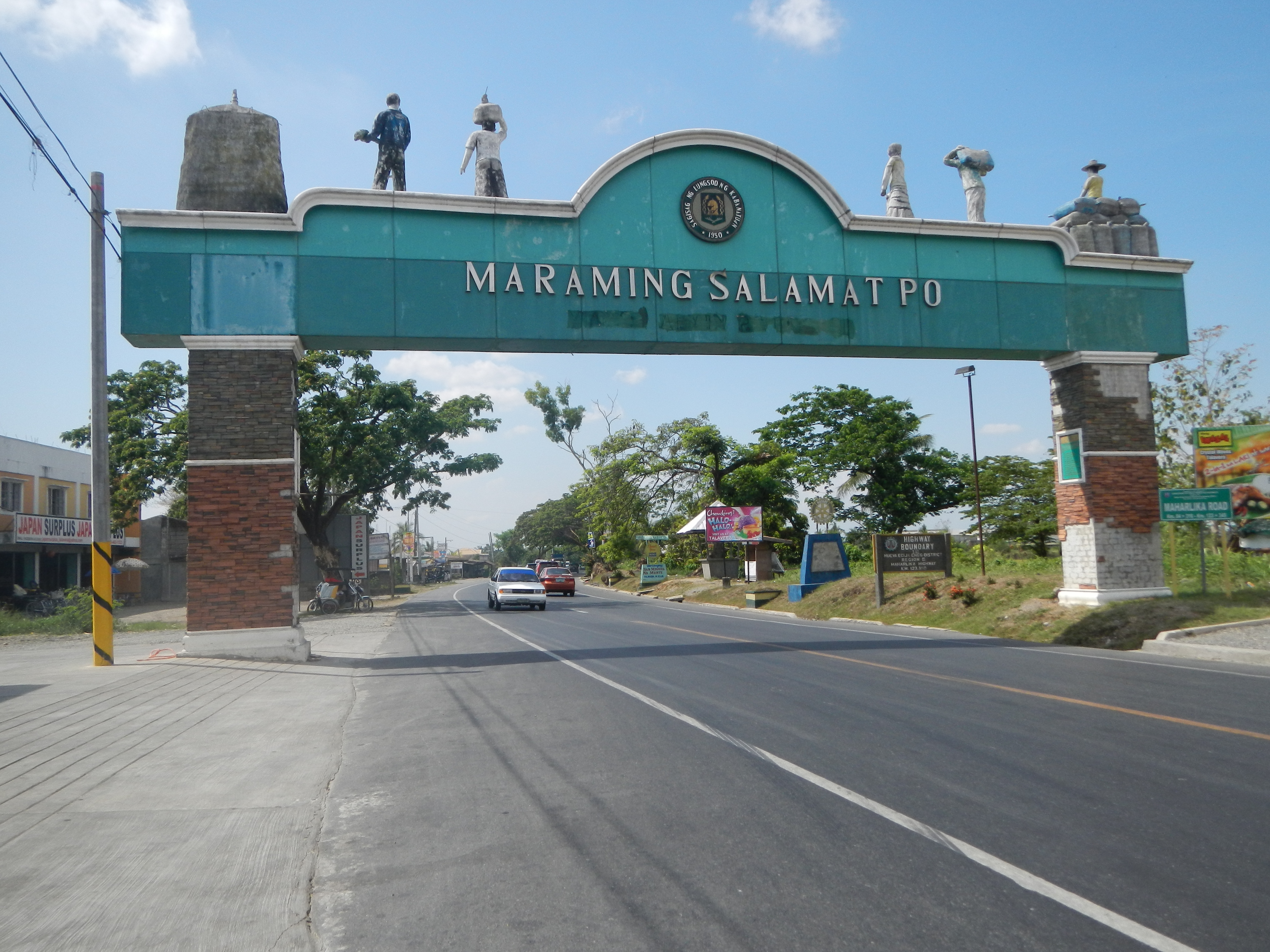 Cabanatuan City Welcome arch (from Talavera, Nueva Ecija) along Maharklika Road or Pan-Philippine Highway Km. 84 + 316 - Km. 123 + 345-350, Highway Boundary 1st Engineering District Region III, Barangay Caalibangbangan, City of Cabanatuan Nueva Ecija adjoined by Barangay San Miguel na Munti, Talavera, Nueva Ecija Paddy fields beside the Iglesia Ni Cristo Local ng Caalibangbangan Distrito ng Nueva Ecija South.